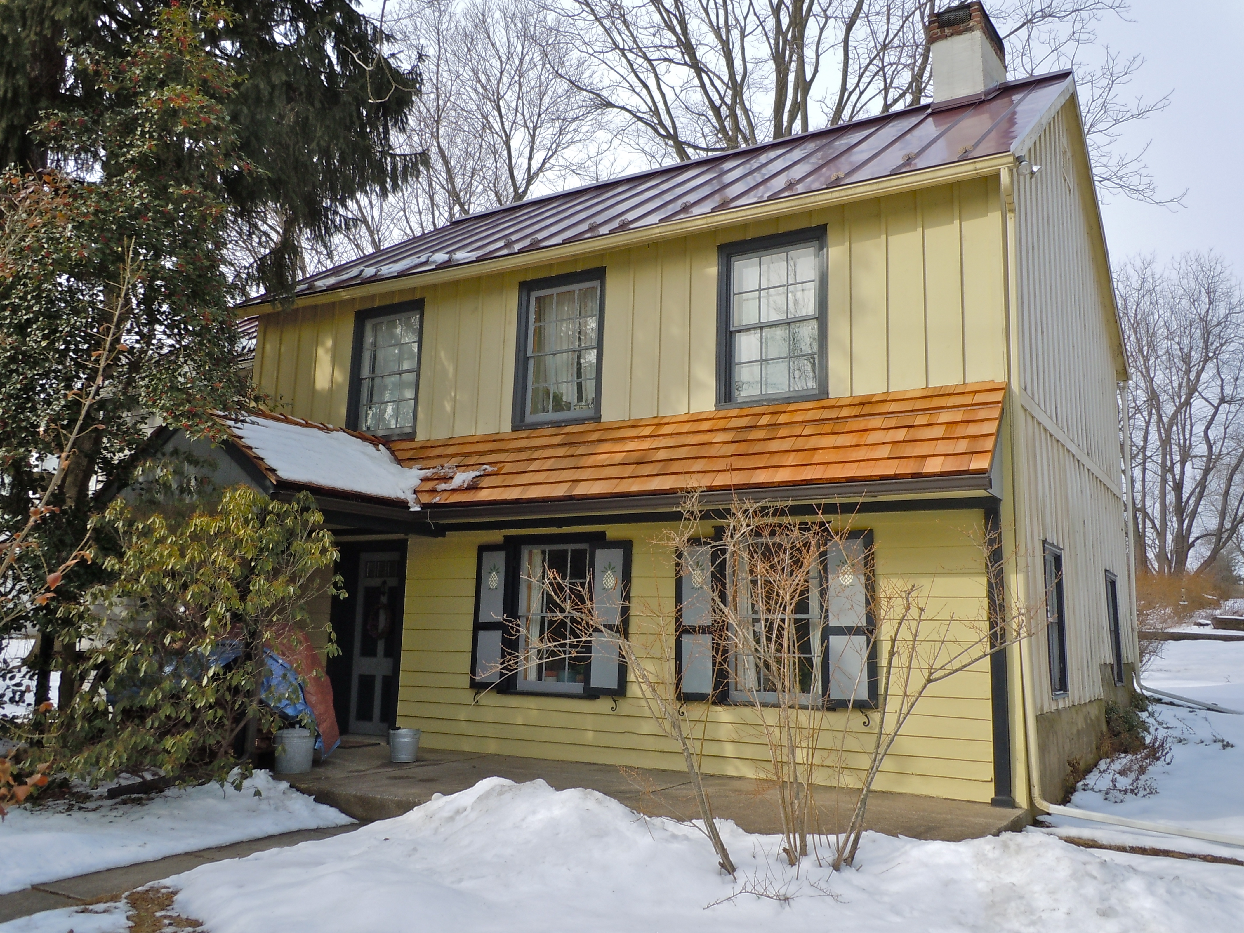 David Ashbridge Log House on the NRHP since November 6, 1984, at 1181 King Road in West Whiteland Township, Chester County, Pennsylvania, north of West Chester. Near an underpass of the US 202 expressway, which kind of ruins the scenery. Obviously the house has been covered with wood siding so it doesn't much look like a log house, but this is it.